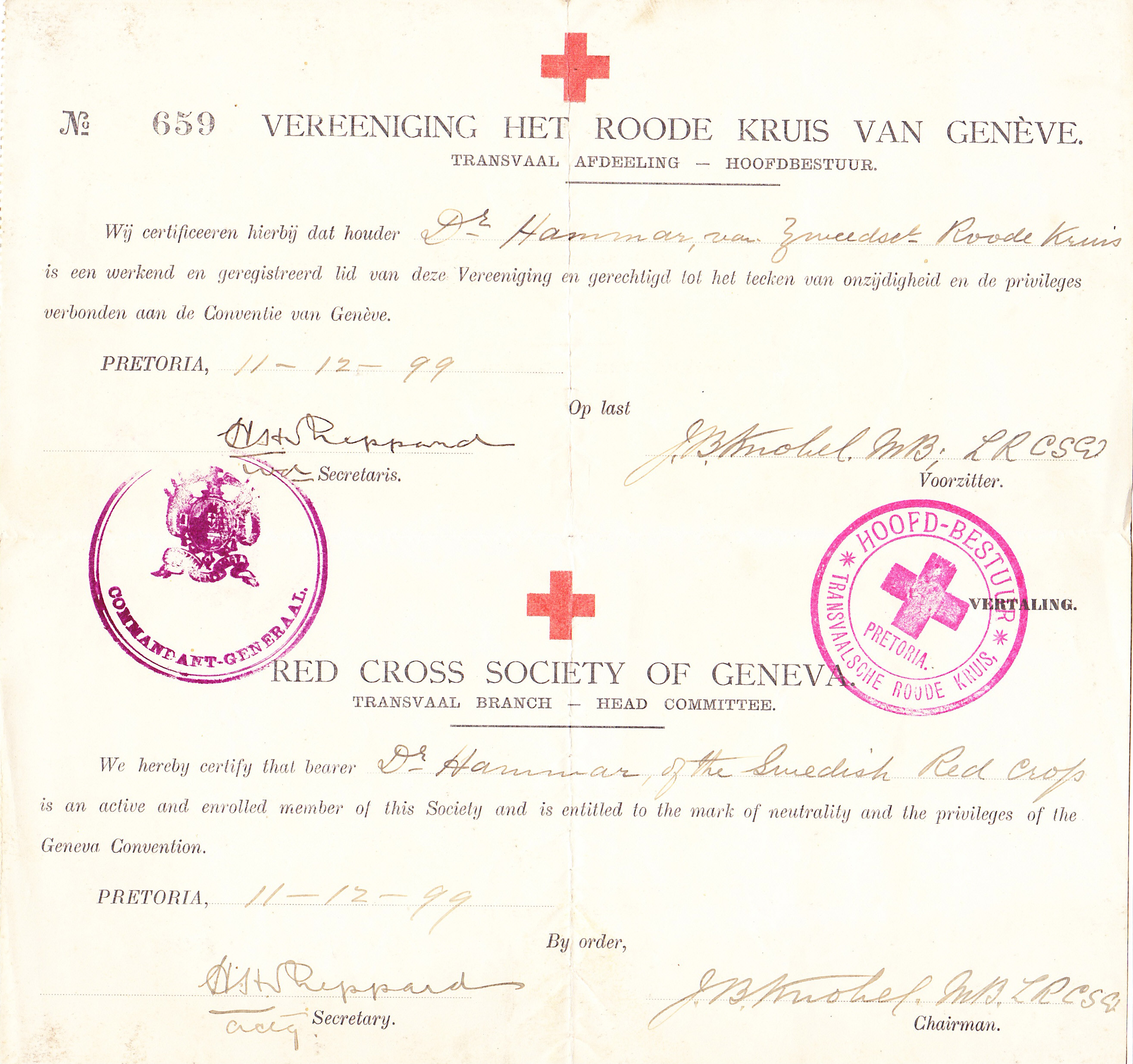 A pass certifying that Dr. Josef Hammar is working for the Red Cross.